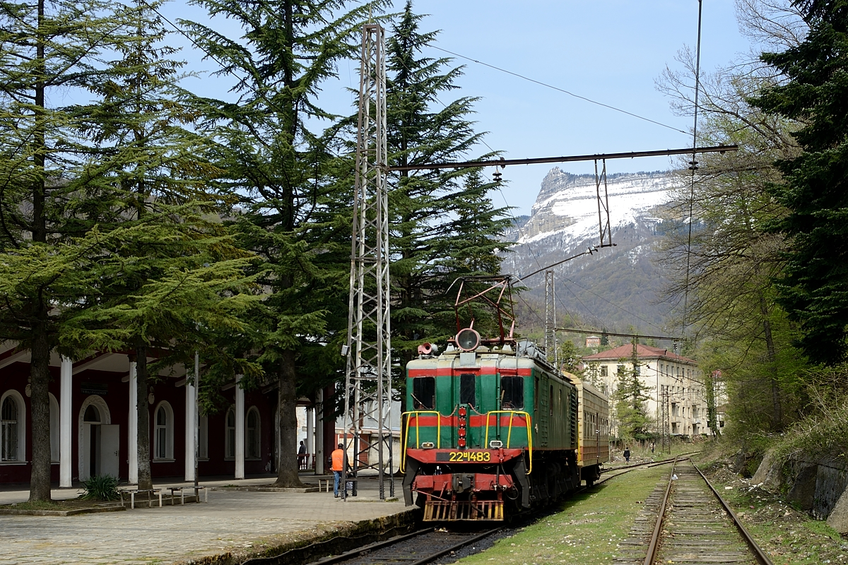 ВЛ22М (VL22M) 1483 in Tqibuli-2